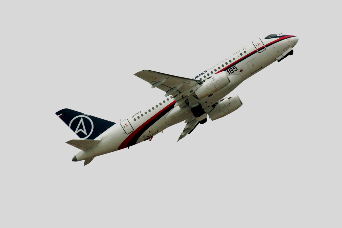 Sukhoi Superjet 100 at the MAKS 2009 Airshow.